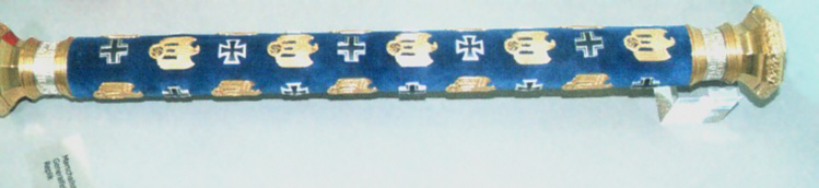 Replica of the Marshal's baton of Generalfeldmarschall von Richthofen of the Third Reich Quelle: Privatfotografie Fotograf oder Zeichner: Norbert Radtke - 2003 Andere Versionen: Lizenzstatus: Public Domain